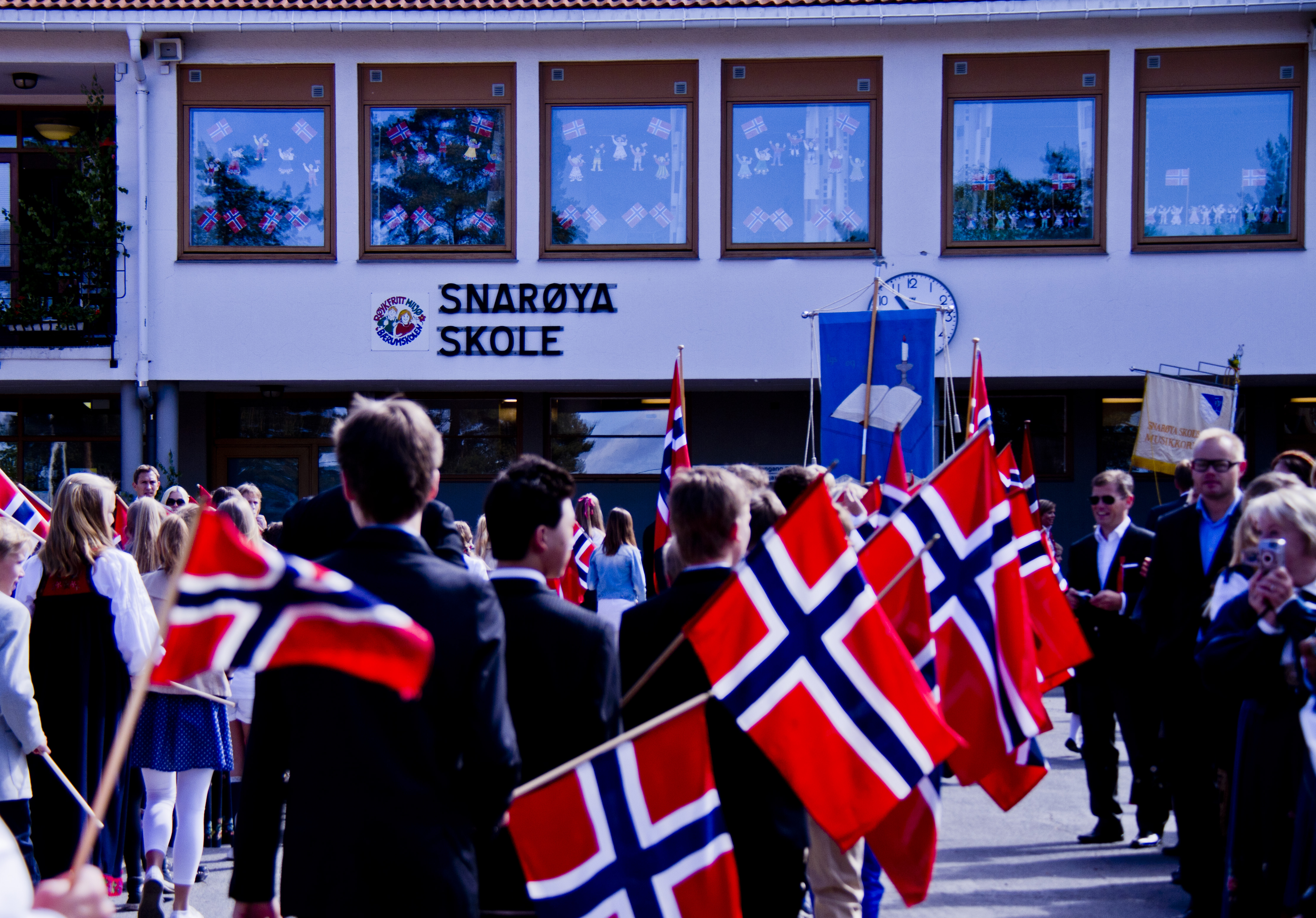 National day at Snarøya School, Snarøya, Bærum, Norway